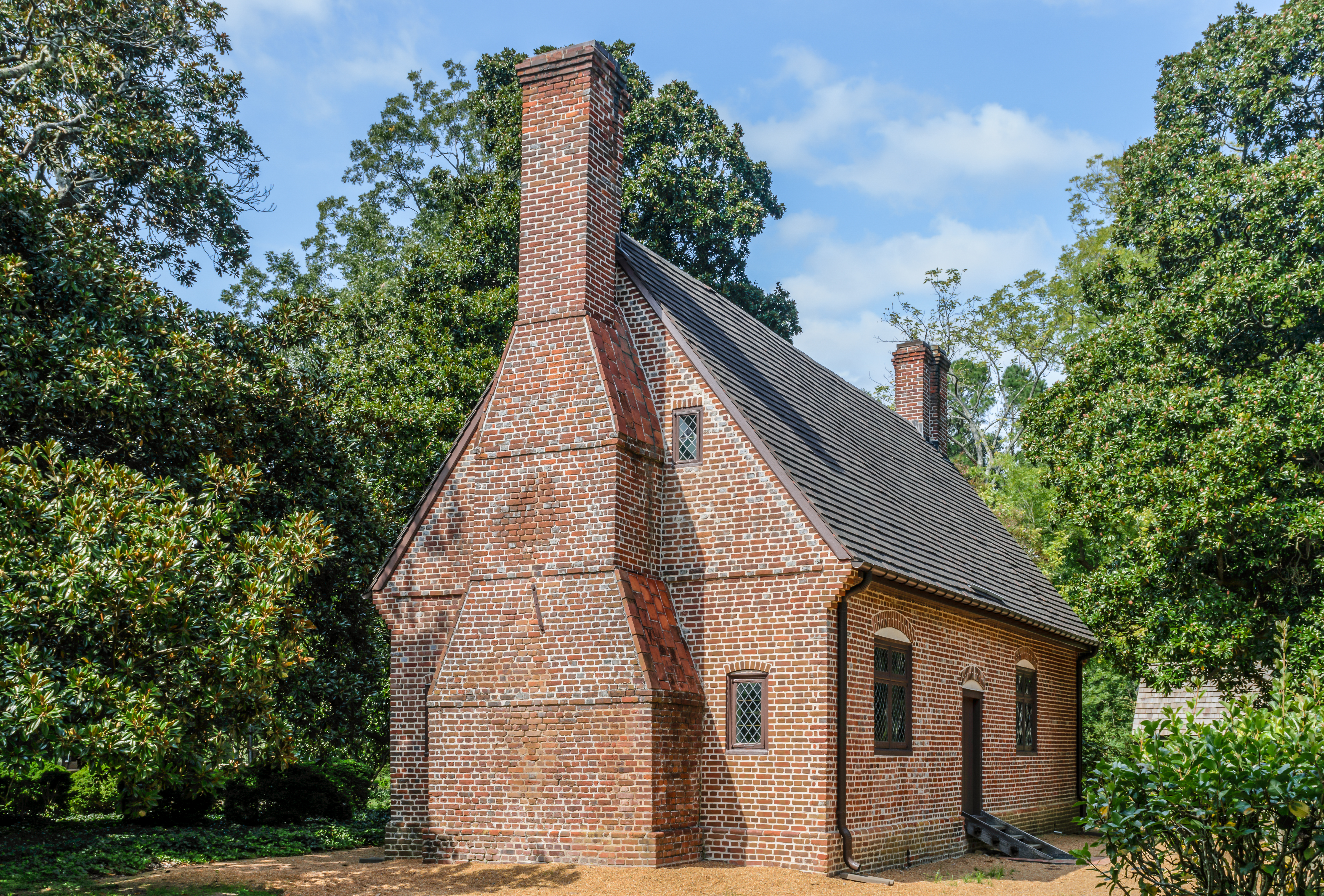 South view of the Adam Thoroughgood House, built circa 1719. Thoroughgood was a prominent early settler of what is now Virginia Beach, Virginia. This neighborhood and two streets in it are named after him.